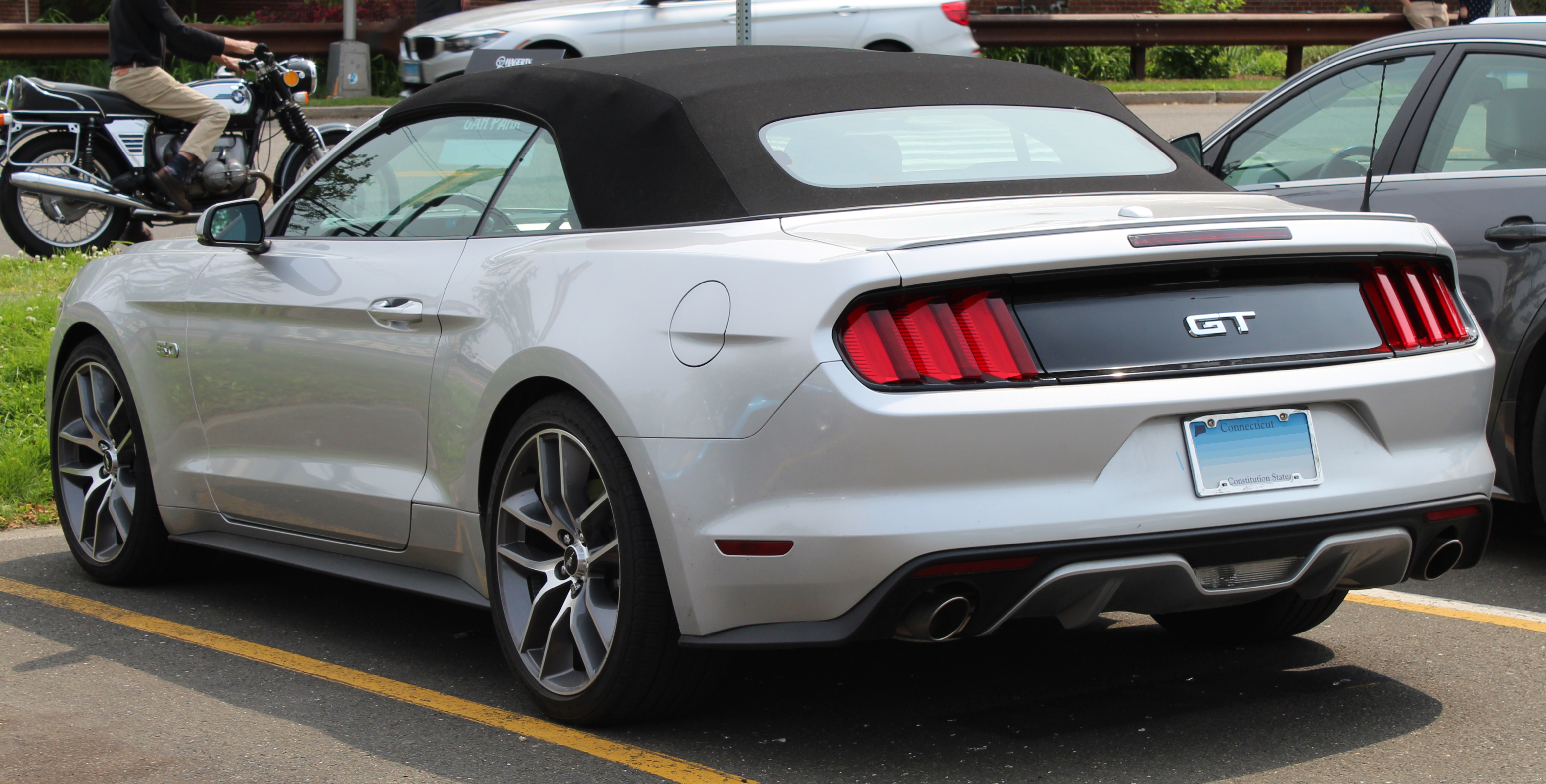 A 2017 Ford Mustang GT Premium photographed in Greenwich Concours d'Elégance Hagerty parking lot, Connecticut, USA